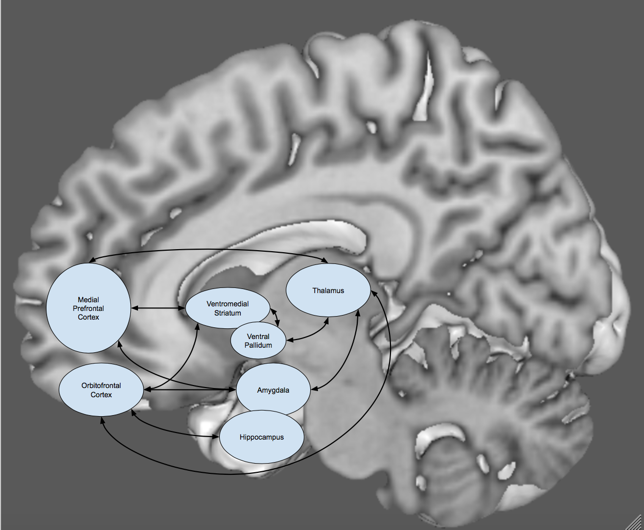 Circuit as described by Drevets, Price, and Furey in "Brain structural and functional abnormalities in mood disorders: implications for neurocircuitry models of depression", 2008.